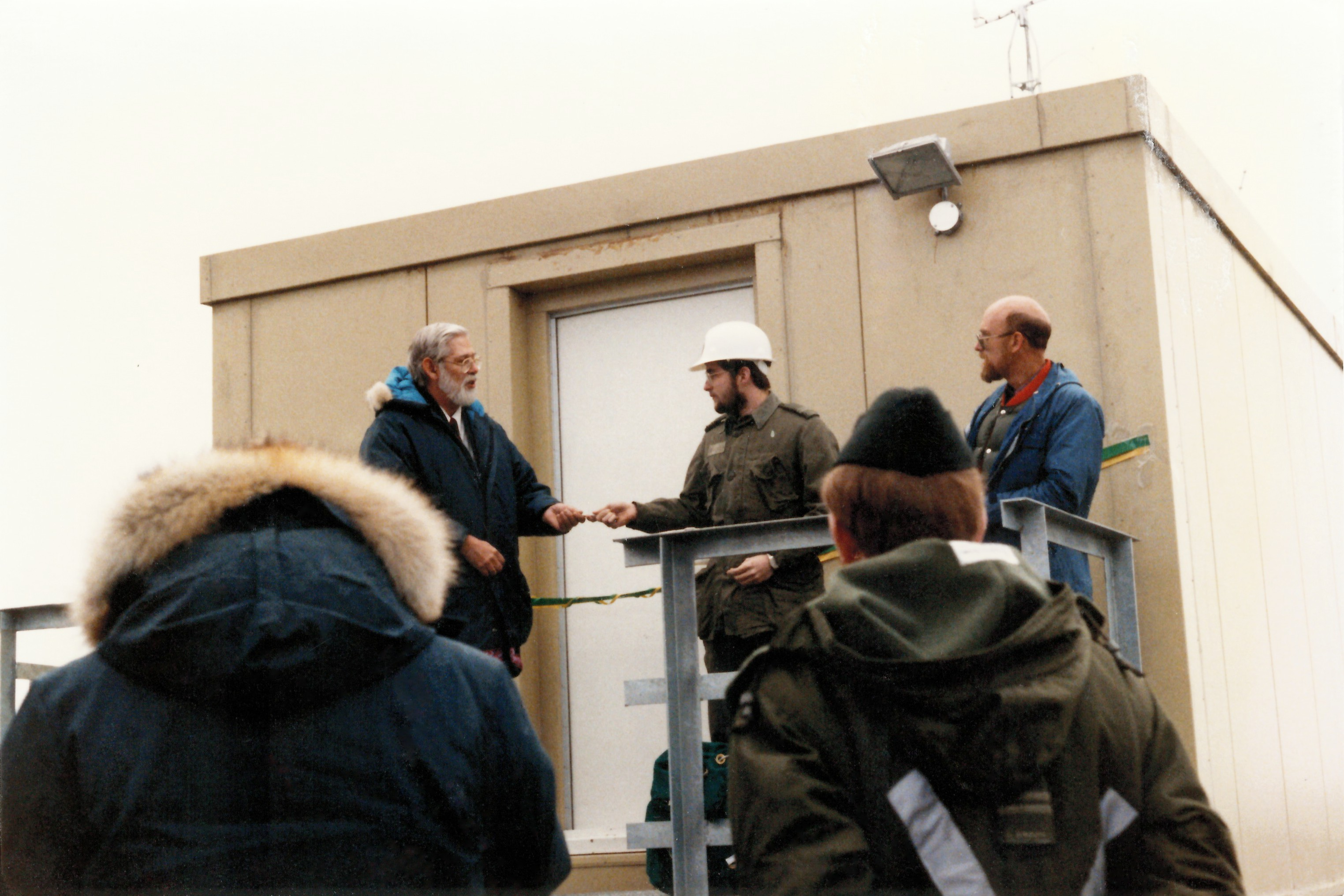 Ribbon cutting ceremony at the official opening of the Alert Background Air Pollution Monitoring Network (BAPMoN) Observatory.